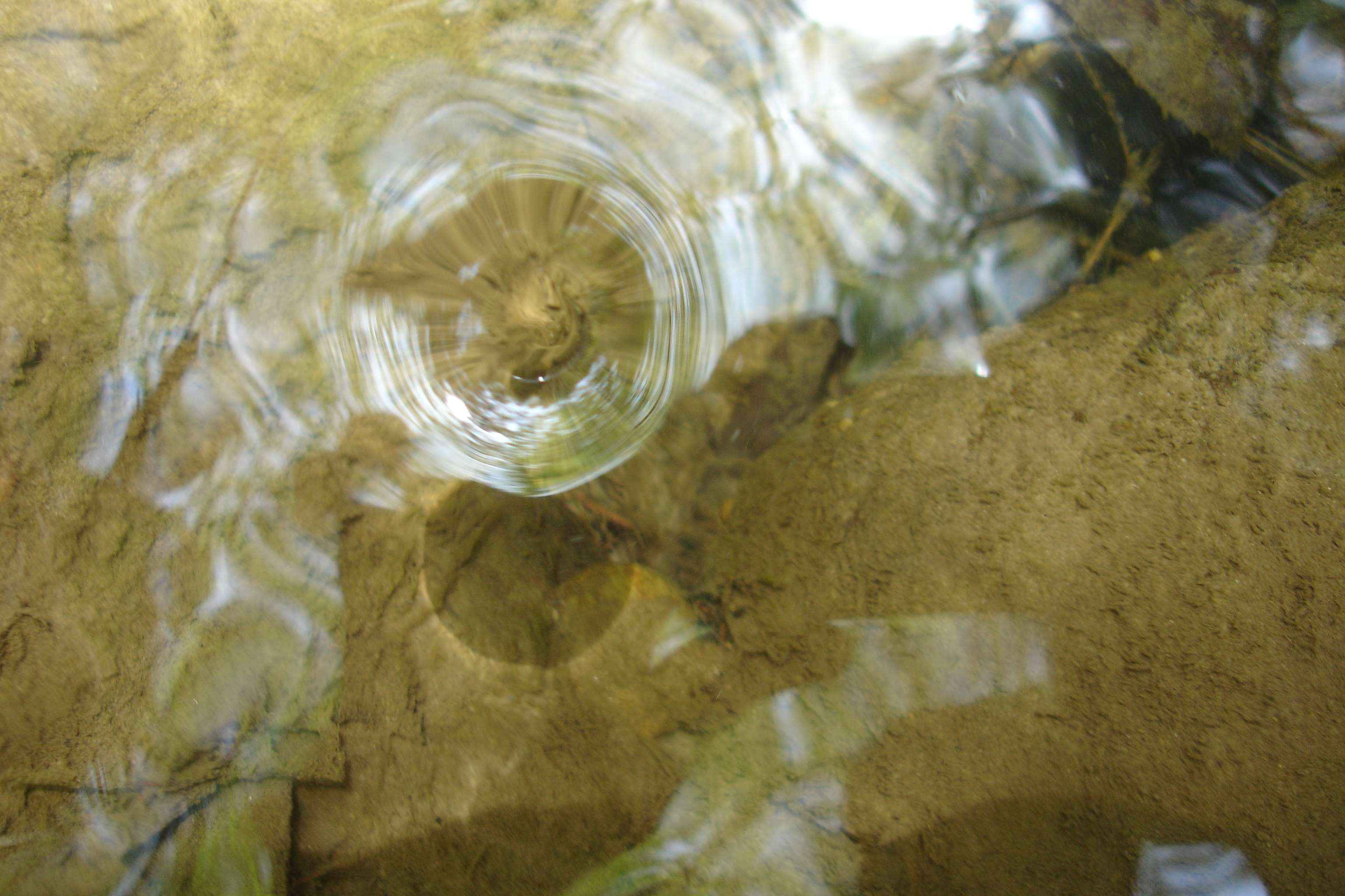 A small whirlpool in the Tionesta Creek in the Allegheny National Forest, Pennsylvania, USA.